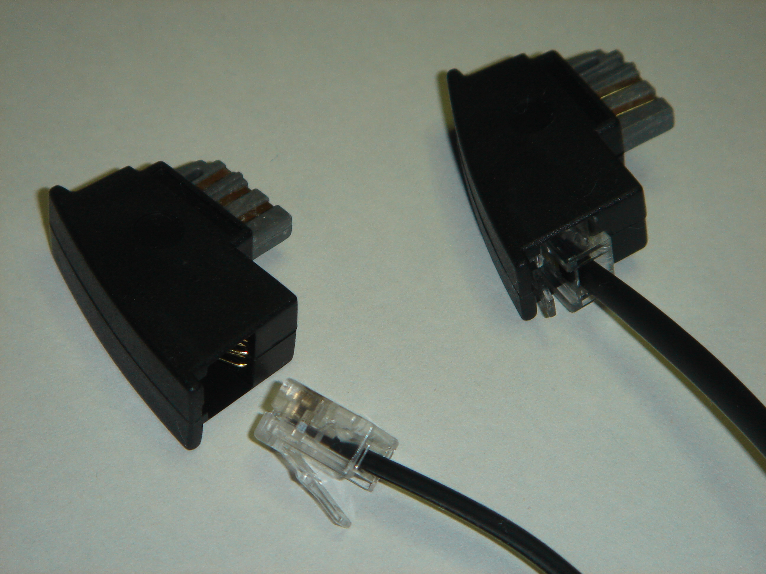 TAE connector with Registered jack Cable